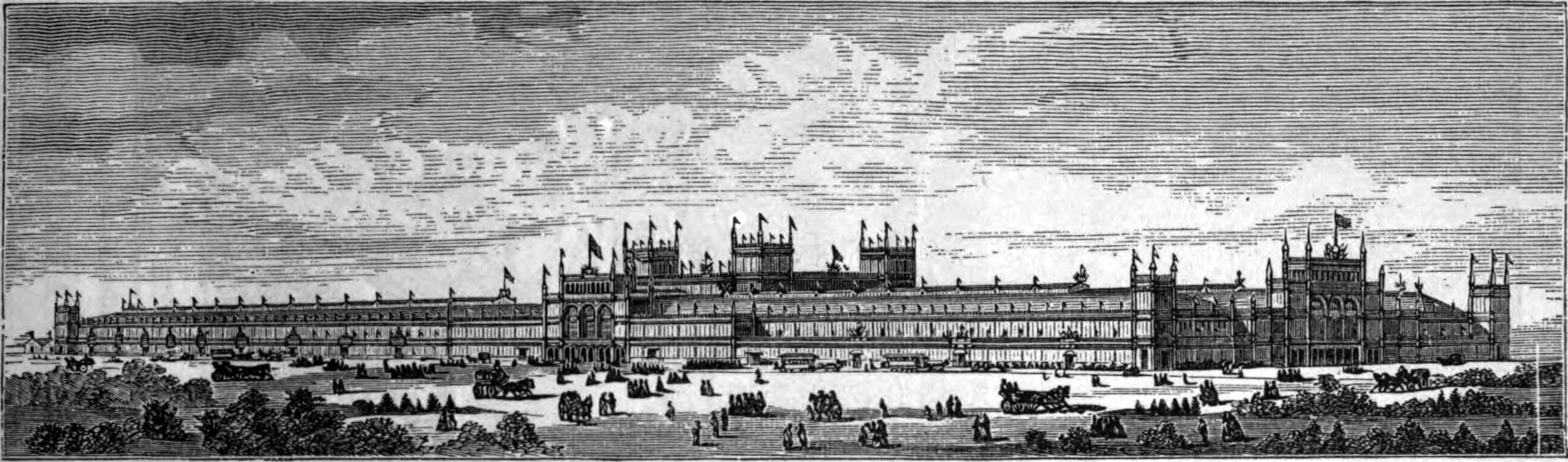 Woodcut view of the Main Exhibition Building at the United States Centennial Exposition in Philadelphia, Pennsylvania.